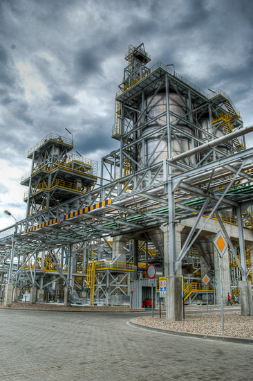 ORLEN’s PX/PTA complex in Włocławek